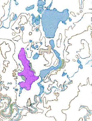 West Okoboji Lake in the Iowa Great Lakes region. Original public domain map courtesy of USGS; © 2004 Matthew Trump